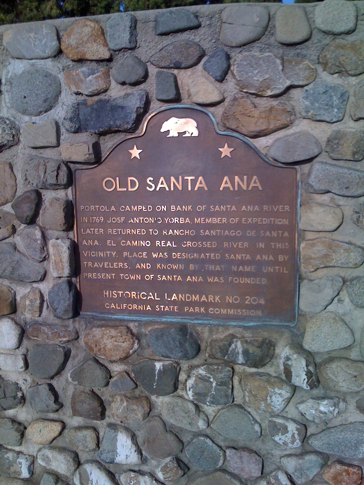 California Historical Landmark #204 marks the site of Old Santa Ana where an officer in the Portolà Expedition of 1769, José Antonio Yorba, settled after receiving a large land grant from Spain, later called the Rancho Santiago de Santa Ana. It is located in present day area called Olive, California